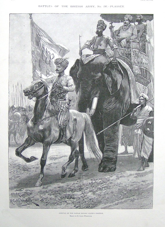 Clive examining the enemy lines from the roof of the Navab's hunting lodge; the Navab's arrival before Clive's position; the Navab's artillery on a special movable platform: three commemorative views of the Battle of Plassey from the Illustrated London News, 1893